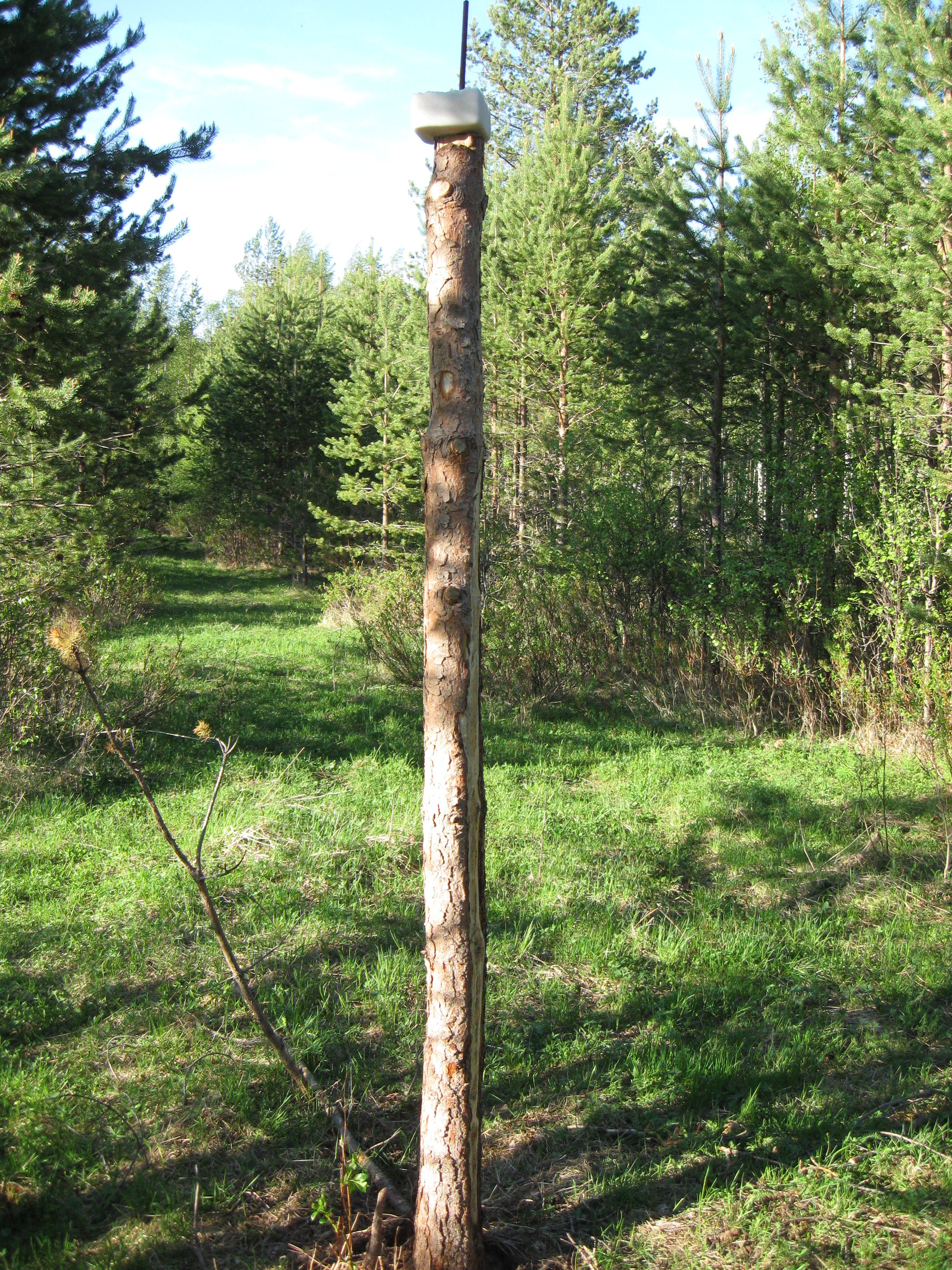 A mineral stone put available for moose in Ylikiiminki (Oulu), Finland.